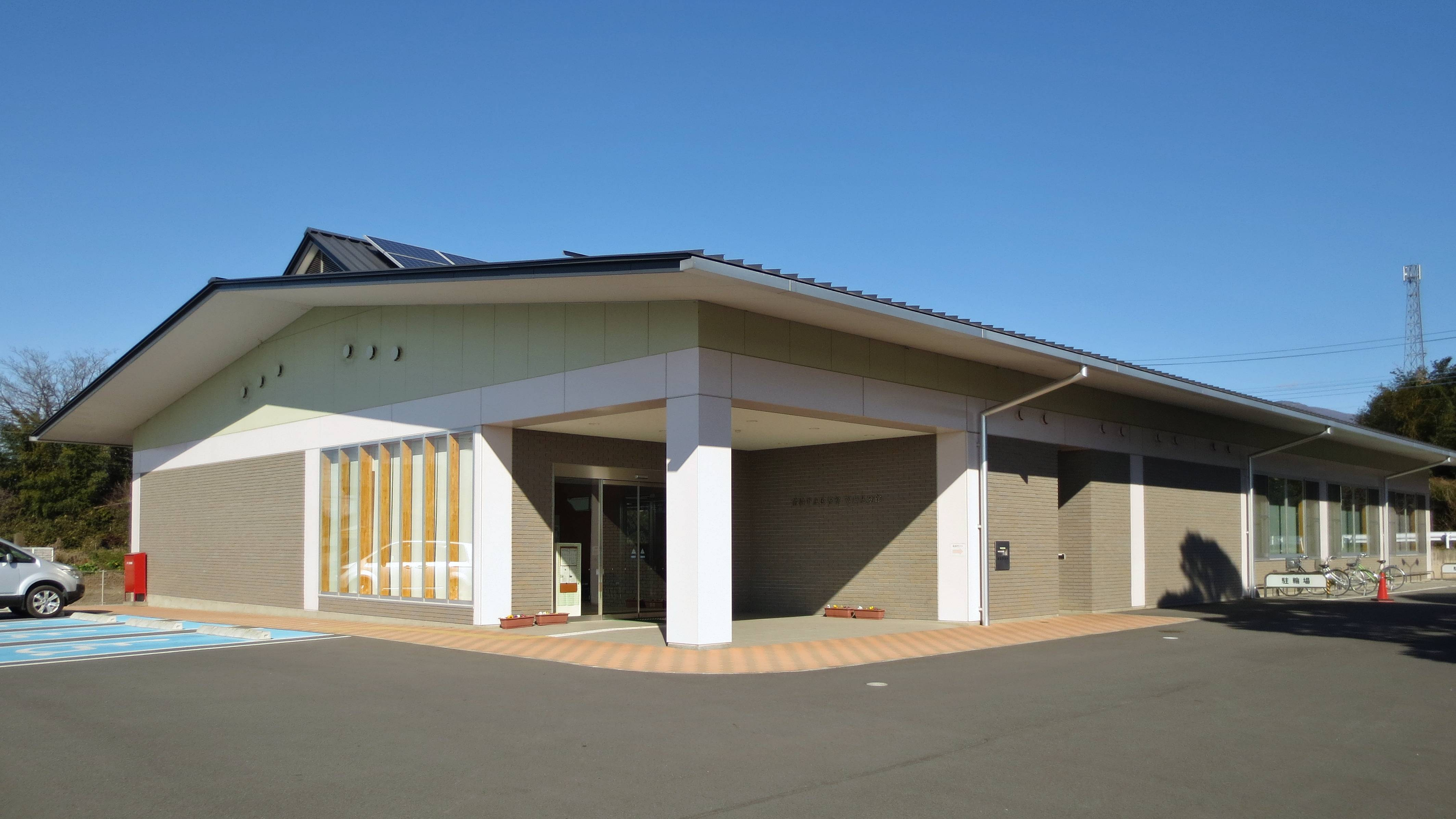 Maebashi City Library Fujimi branch.